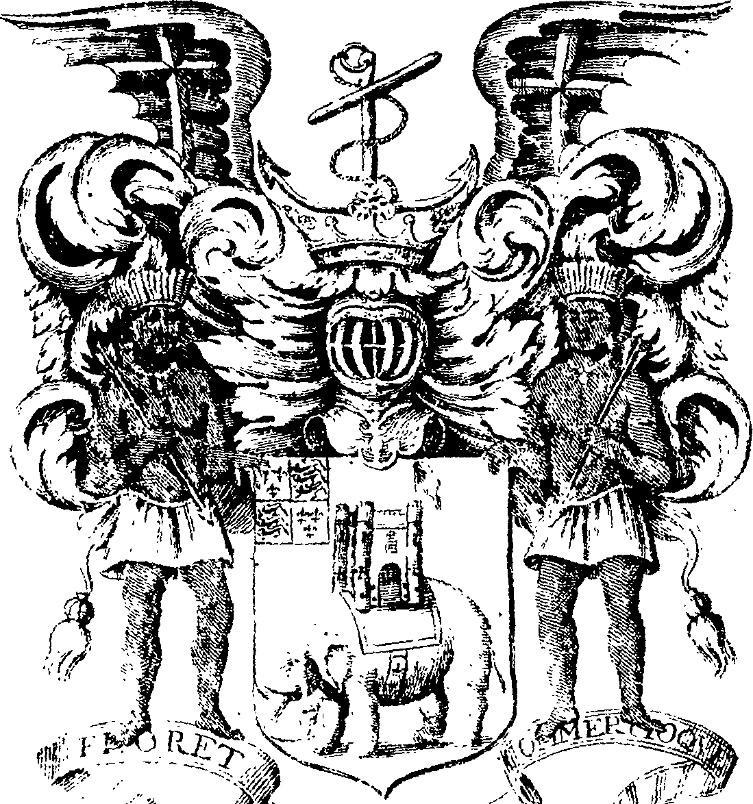 Fleuron from book: All such persons that are desirous to serve the Royal African-Company as souldiers [sic] in Guyne upon the following terms, May repair to the African House in Leaden-Hall-Street, London, and find Entertainment, Viz. Each Souldier shall receive as a free Gift (before he proceeds the Voyage,) Forty Shillings, also a Bed, Rugg, and Pillow; the Company pay his Passage over to Guyne, upon his arrival there to enter into pay, at Twenty Shillings per Month, the Company finding Diet and Lodging. His Wages to be duly paid every Month.